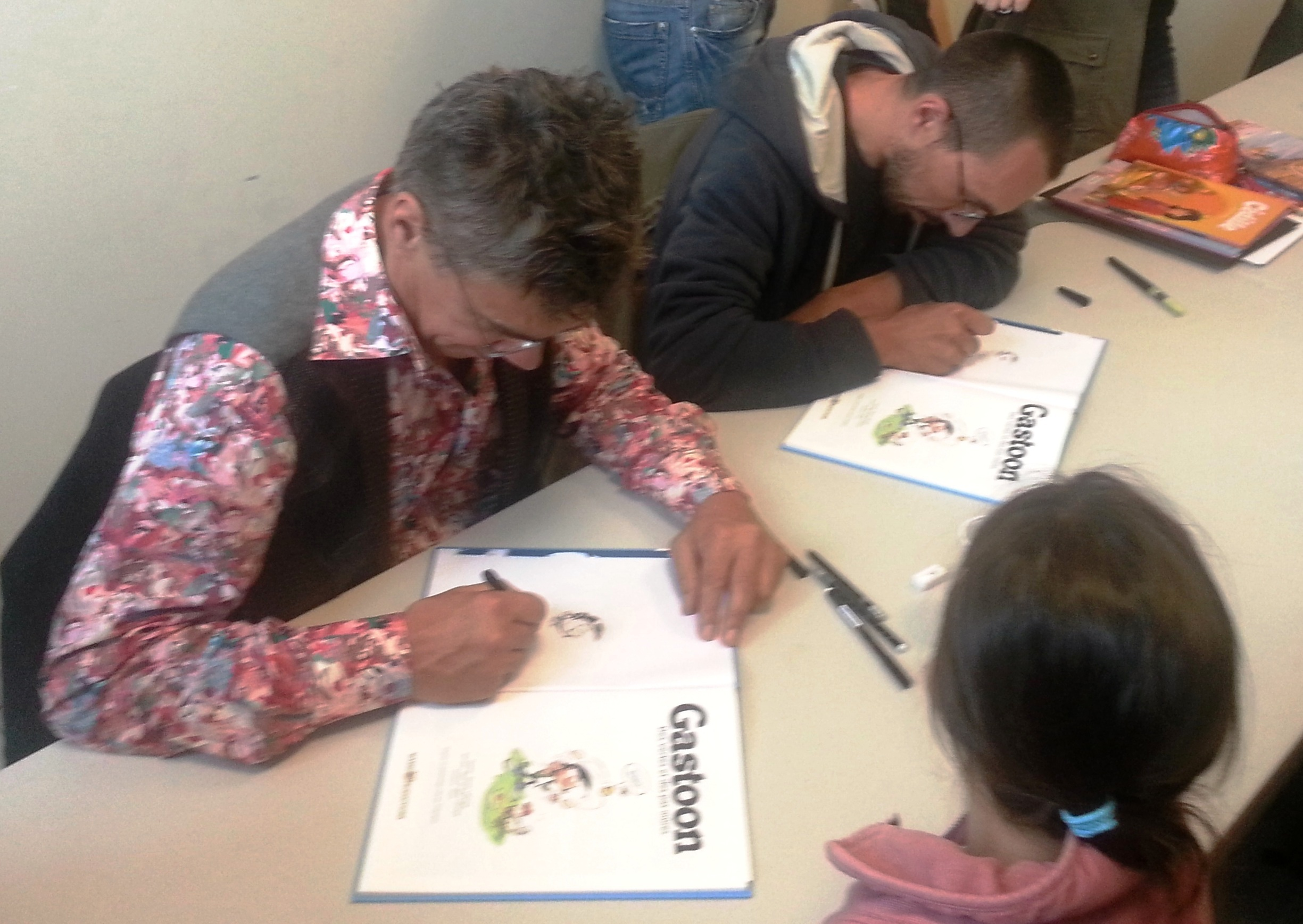 Jean & Simon Léturgie signing copies of Gastoon #2 at Buc Comics Festival 2012. left: Jean Léturgie right: Simon Léturgie